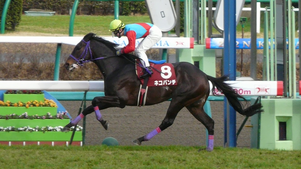 Neko-punch20120324(1)